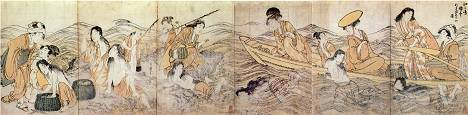 Ukiyo-e six-print set